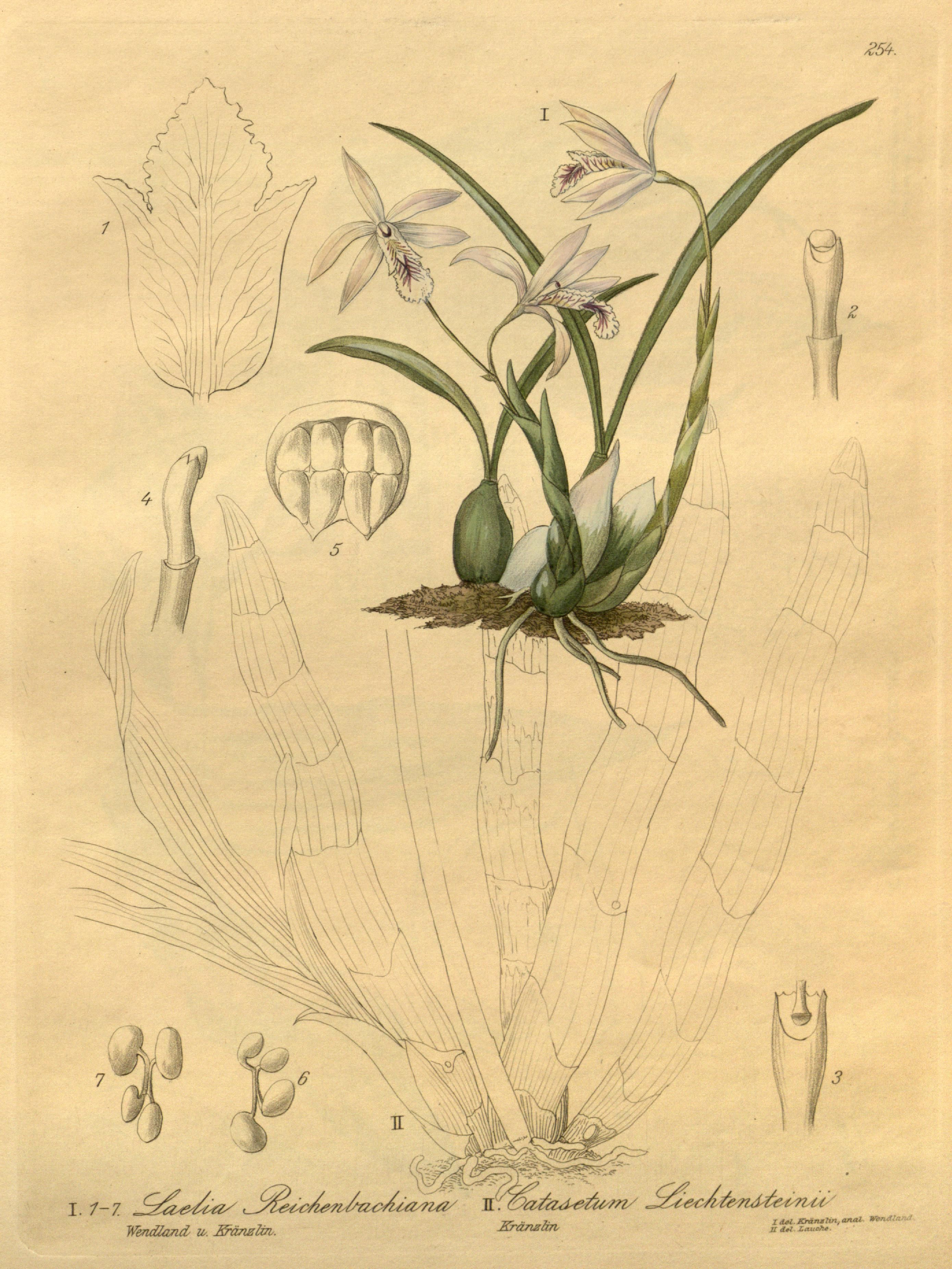 Illustration of I, 1-7. Cattleya lundii (as syn. Laelia reichenbachiana) II. Catasetum socco (as syn. Catasetum lichtensteinii)